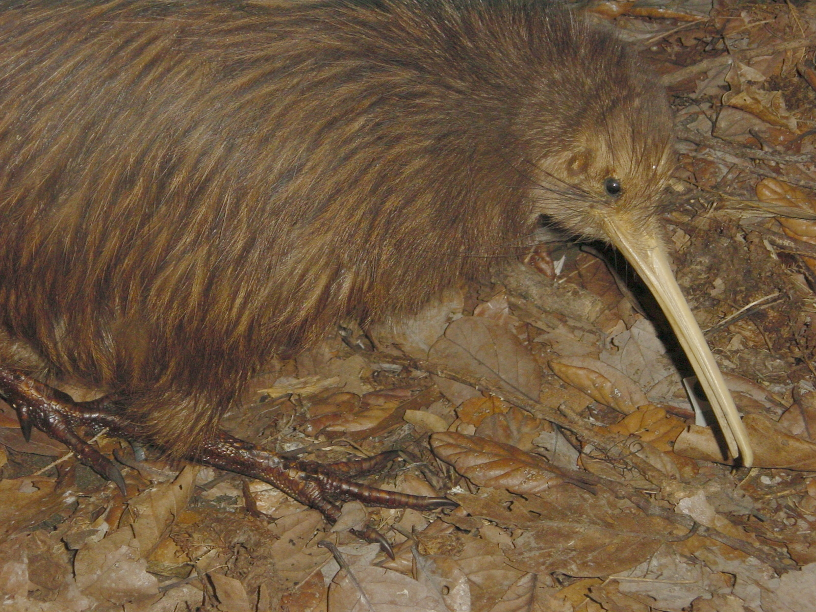 Brown Kiwi in Willowbank Wildlife Reserve.